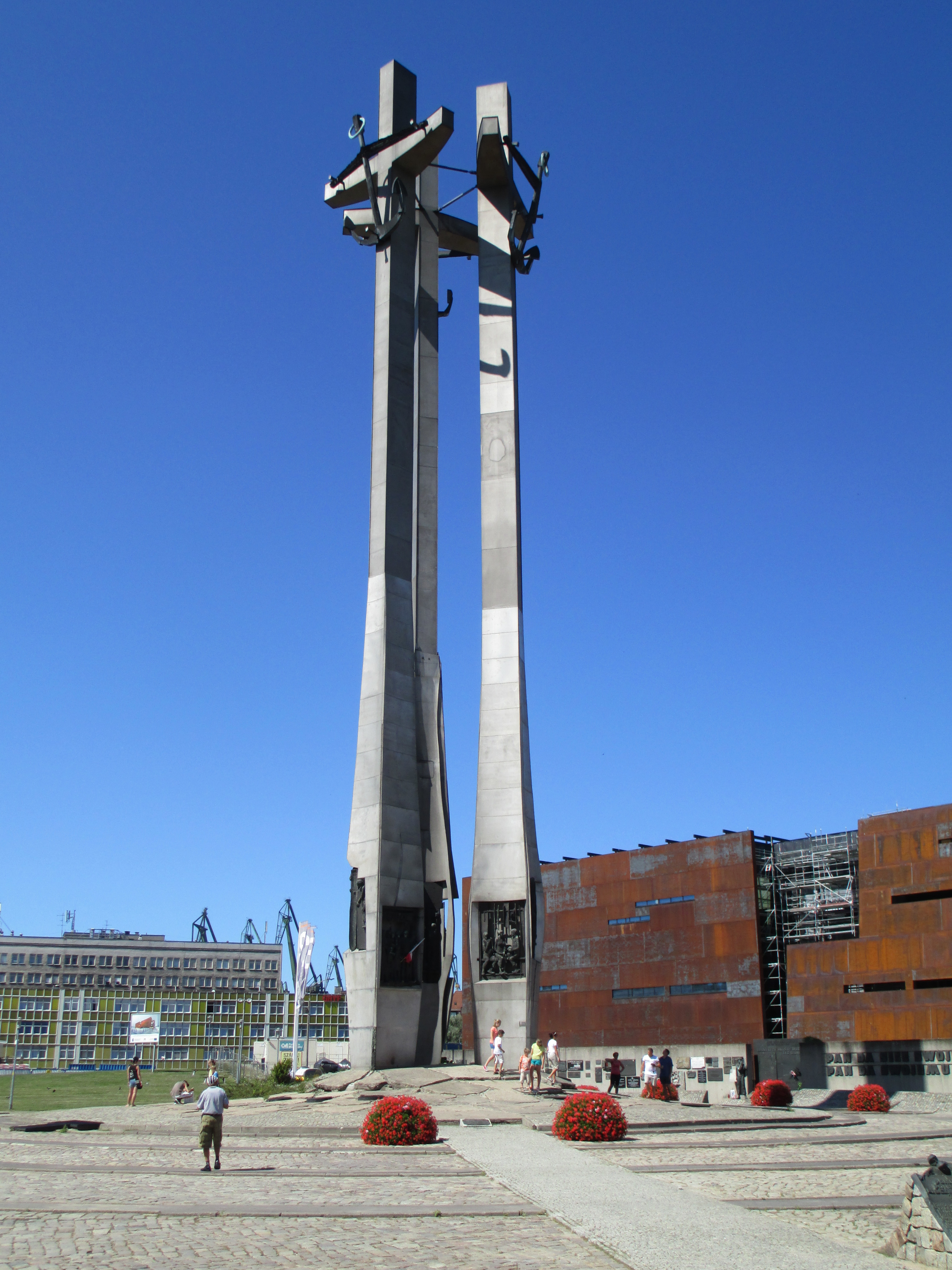 Monument in gdansk to the fallen Shipyard workers of 1970